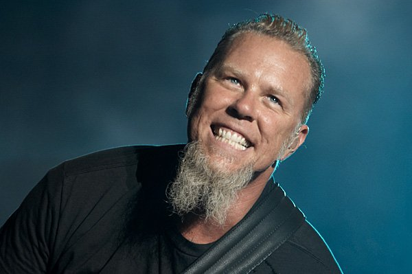 james hetfield metallica @ rotundenplatz vienna Picture originally contained the text "photo by florian reischauer , "